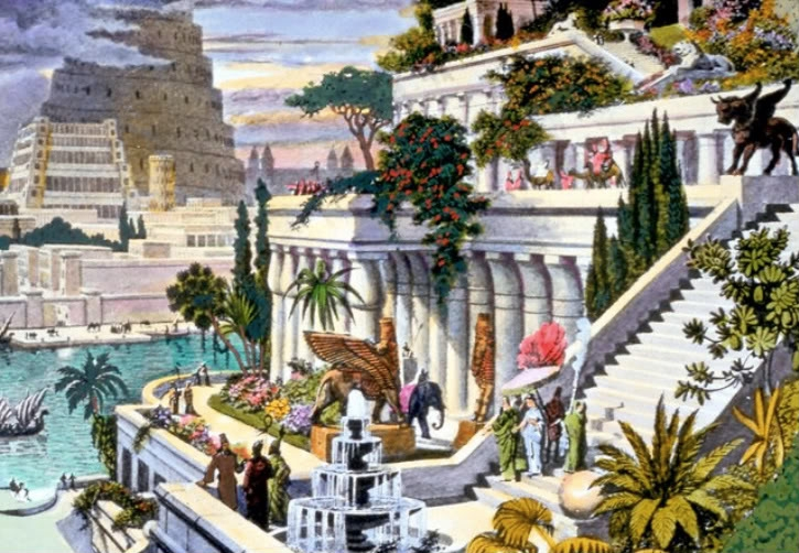 'Hanging Gardens of Babylon' probably 19th century after the first excavations in the Assyrian capitals. ::The Hanging Gardens of Babylon This hand-coloured engraving probably made in 19th century after the first excavations in the Assyrian capitals, depicts the fabled Hanging Gardens of Babylon, one of the Seven Wonders of the World. According to the tradition, the gardens did not hang, but grew on the roofs and terraces of the royal palace in Babylon. Nebuchadnezzar II, the Chaldean king, is supposed to have had the gardens built in about 600 BC as a consolation to his Median wife, who missed the natural surroundings of her homeland. Michelli (former St. Olaf professor, it appears). ---- From wikipedia; More than 100 years old, hence public domain.